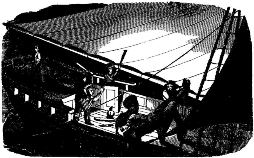 Captain Thornby murdered and thrown overboard by Charles Gibbs and the steward as depicted in The Pirates Own Book by Charles Ellms.